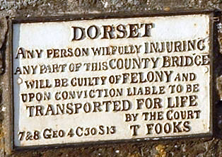 A notice on Sturminster Newton bridge. Taken by Steinsky, July 2004.